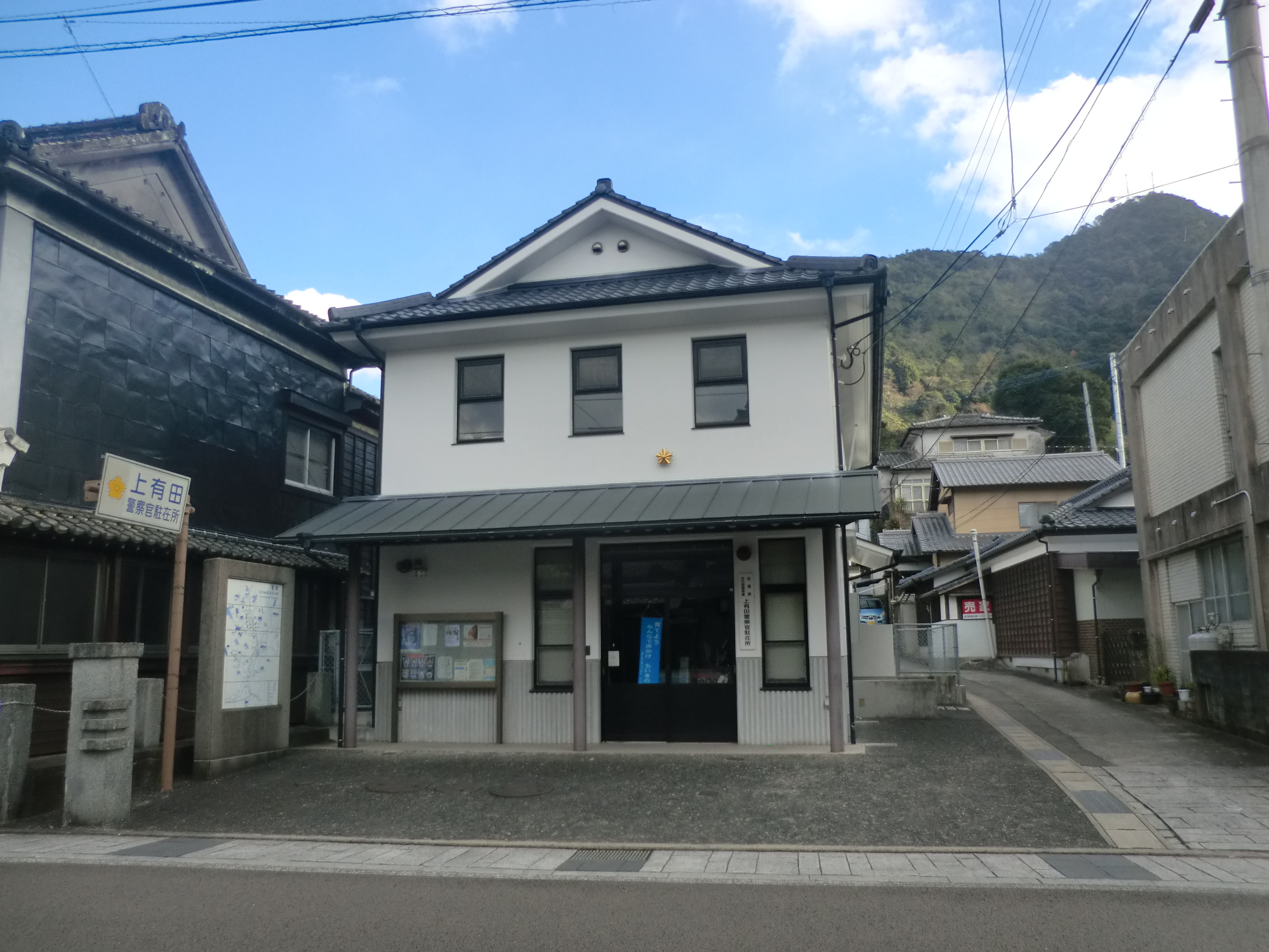 Imari police station Arita inspector koban in Arita,Saga,Japan.